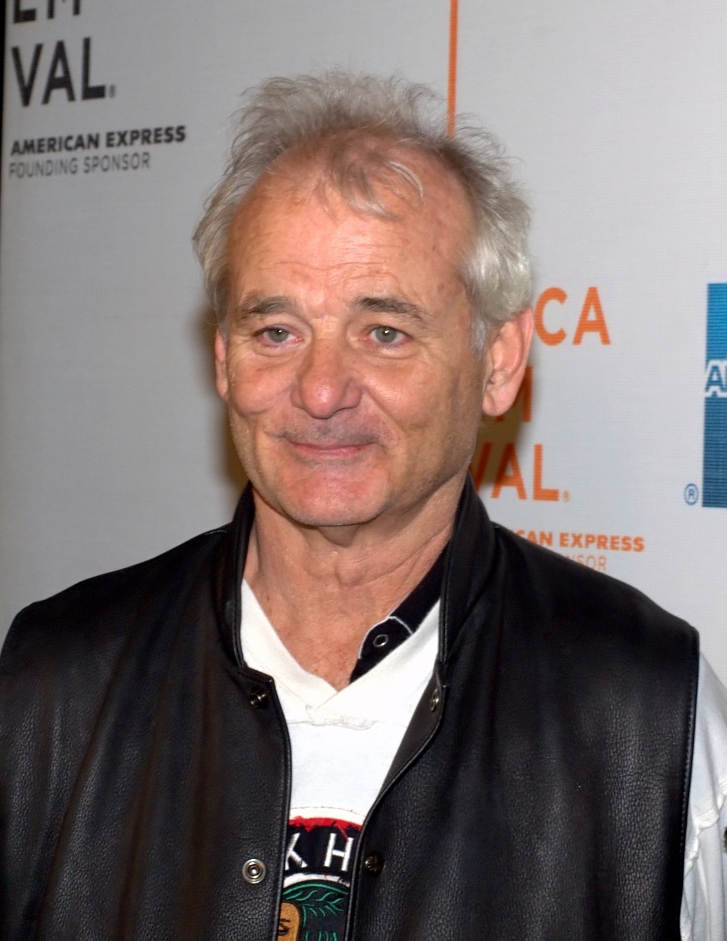 Bill Murray at Tribeca Film Festival 2010